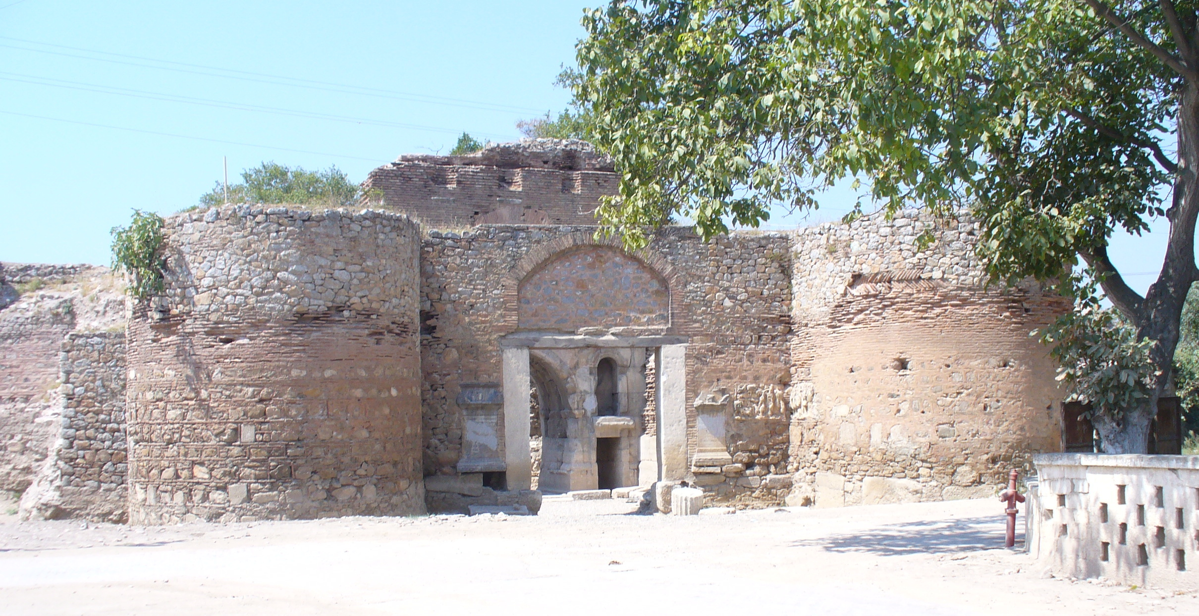 The Lefke Gate in Iznik, along the western ramparts of the city.